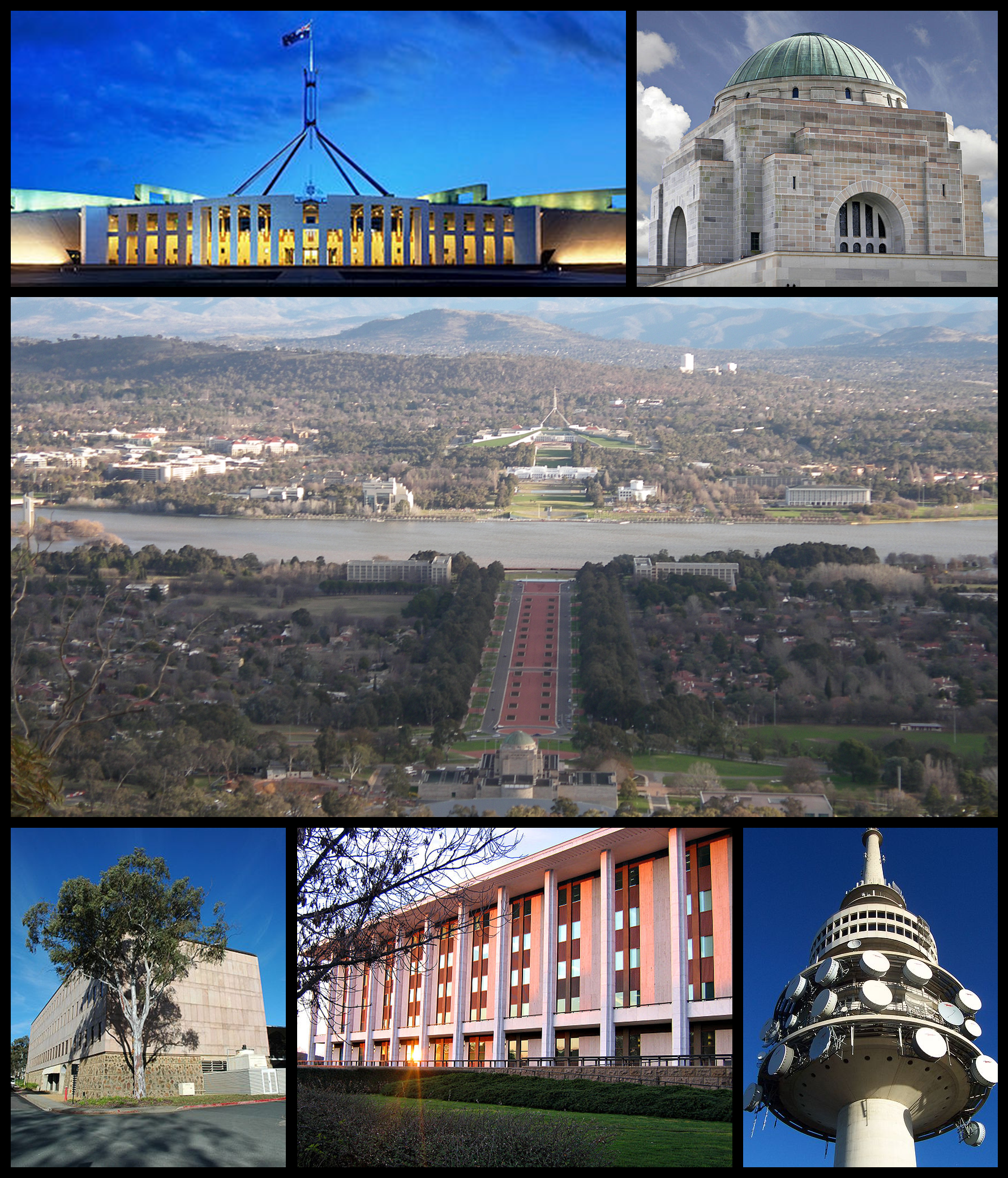 A montage of Canberra images, made from multiple existing images: Clockwise: Paliament House, Australian War Memorial, view of the city along the parliamentary axis, Black Mountain Tower, National Library of Australia, and Australian National University